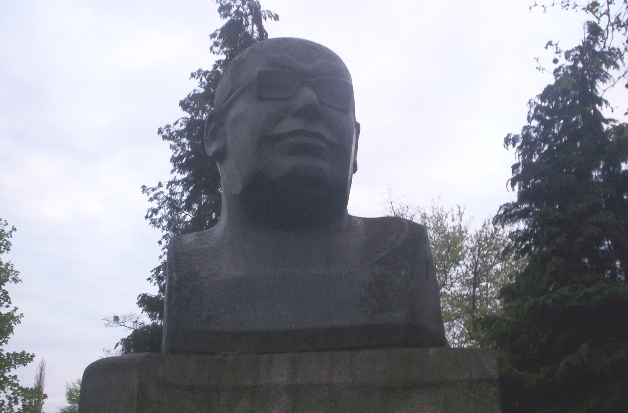 Oskar Lange monument at the Wrocław University of Economics. Picture taken on April 26, 2005 by Paweł Dembowski.